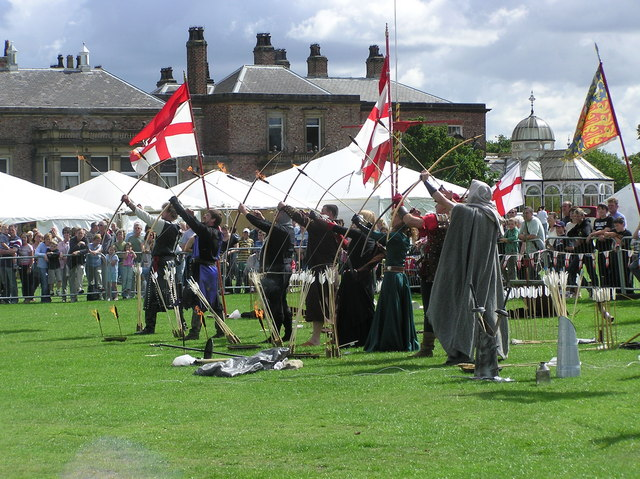 Archery Display : Preston Park. Stockton Summer Show. With Rex Boyd's Robin Hood Archery Display.